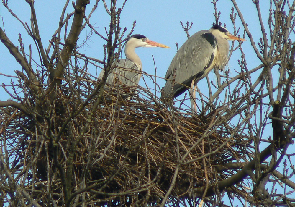 Grey Heron, (Ardea cinerea) in Regents Park. London, England.